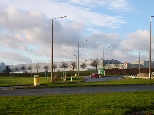 Daventry. North Eastern End of Cummins Diesel Engine Plant taken from east of traffic island.